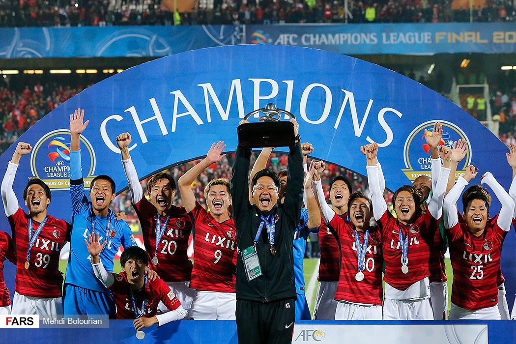 AFC Champions League Final 2018